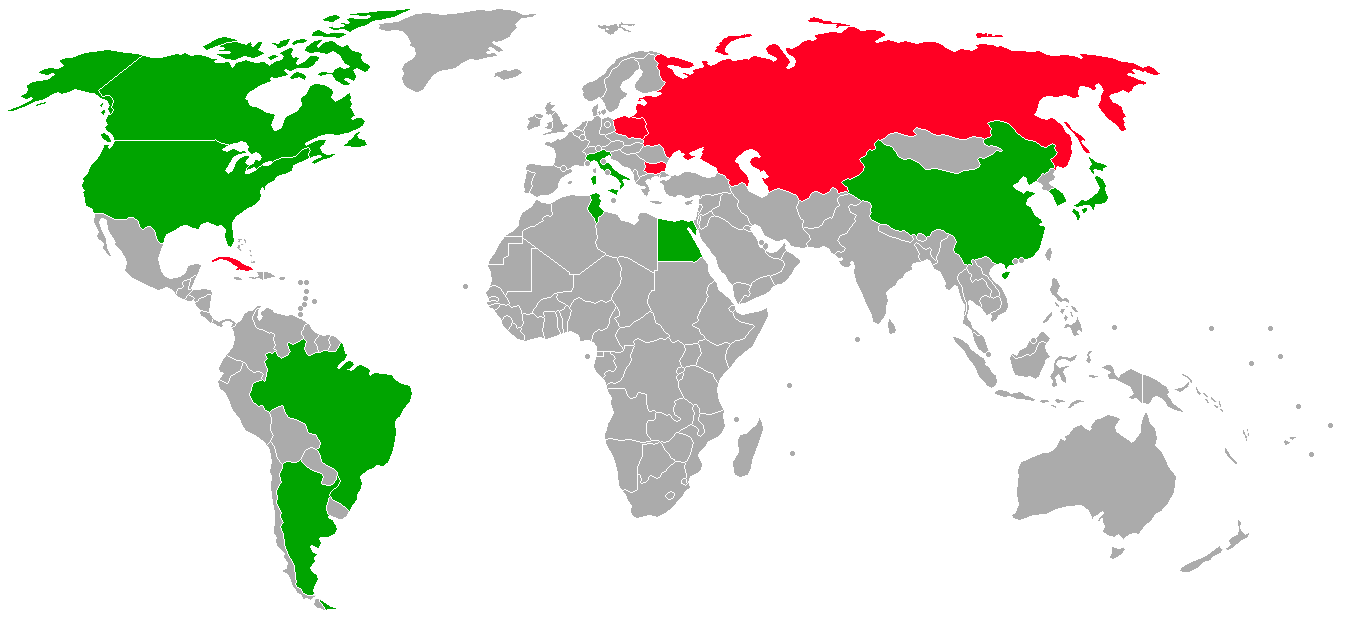 Volleyball at the 1984 Summer Olympics – Men's volleyball